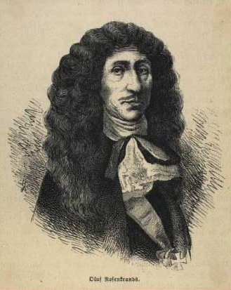 Oluf Rosenkrantz, Danish nobleman